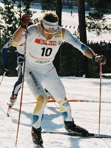 Thobias Fredriksson at a FIS World Cup race, Falun, Sweden 2007.